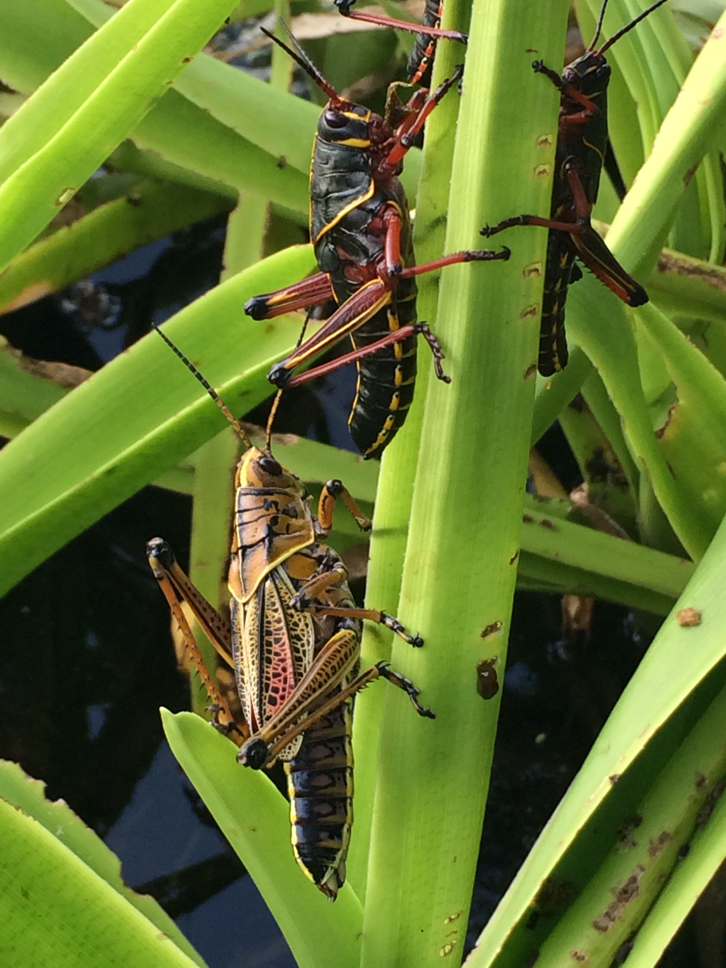 Adult and nymph stages of Lubber Grasshopper. Photo taken at pond edge, Celebration Florida.